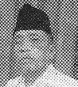 Indonesian writer Mohammad Kasim